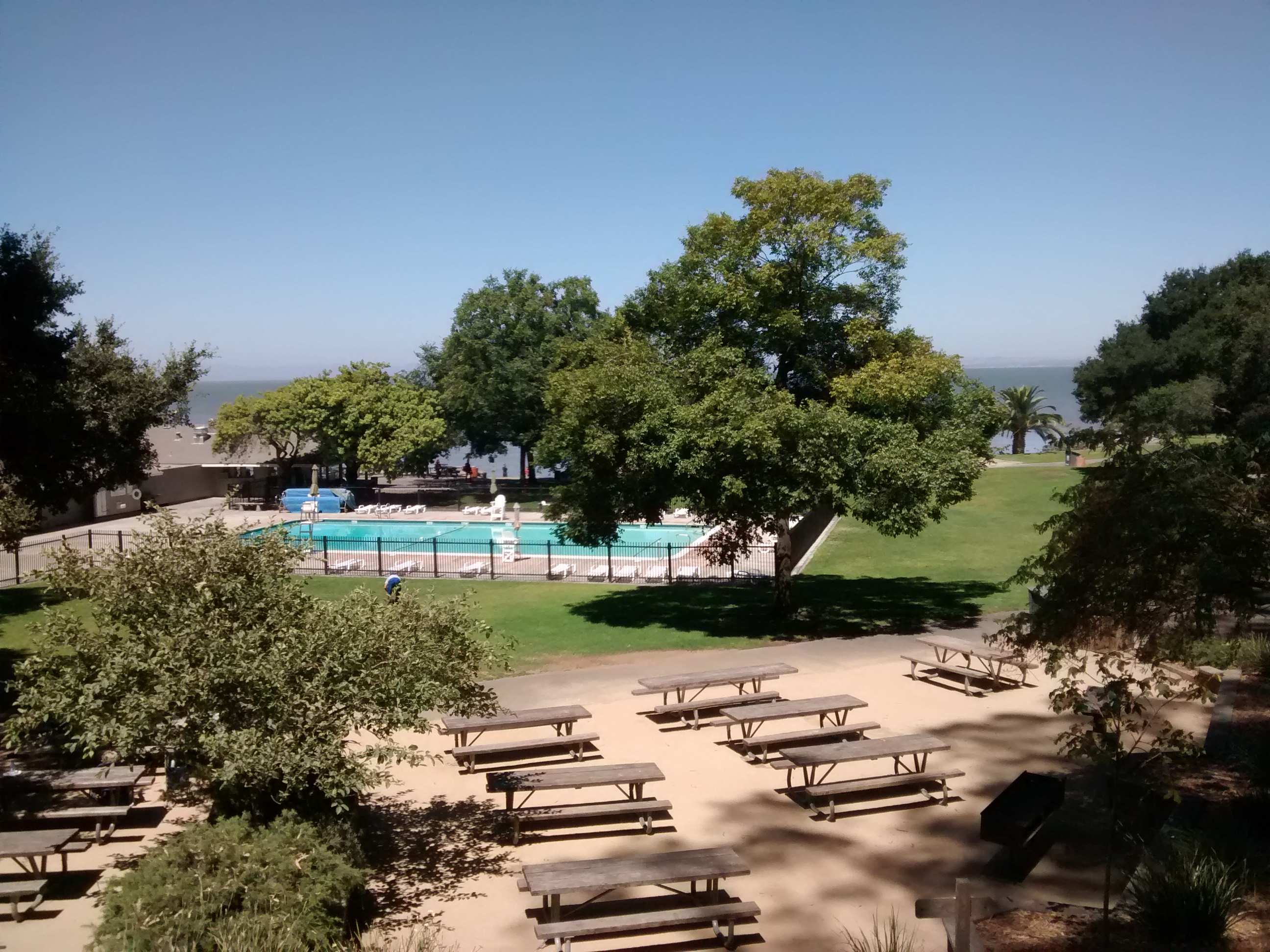 Picnic tables and pool in McNears Beach Park, McNears Beach, California. The geocoordinates in the EXIF data are incorrect.